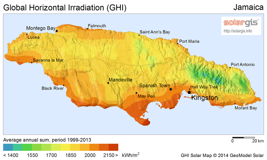 Solar Radiation Map: Global Horizontal Irradiation Map of Jamaica, SolarGIS. English version.